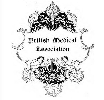 Cropped from the book shown in the link. Logo of hte BMA from 1897